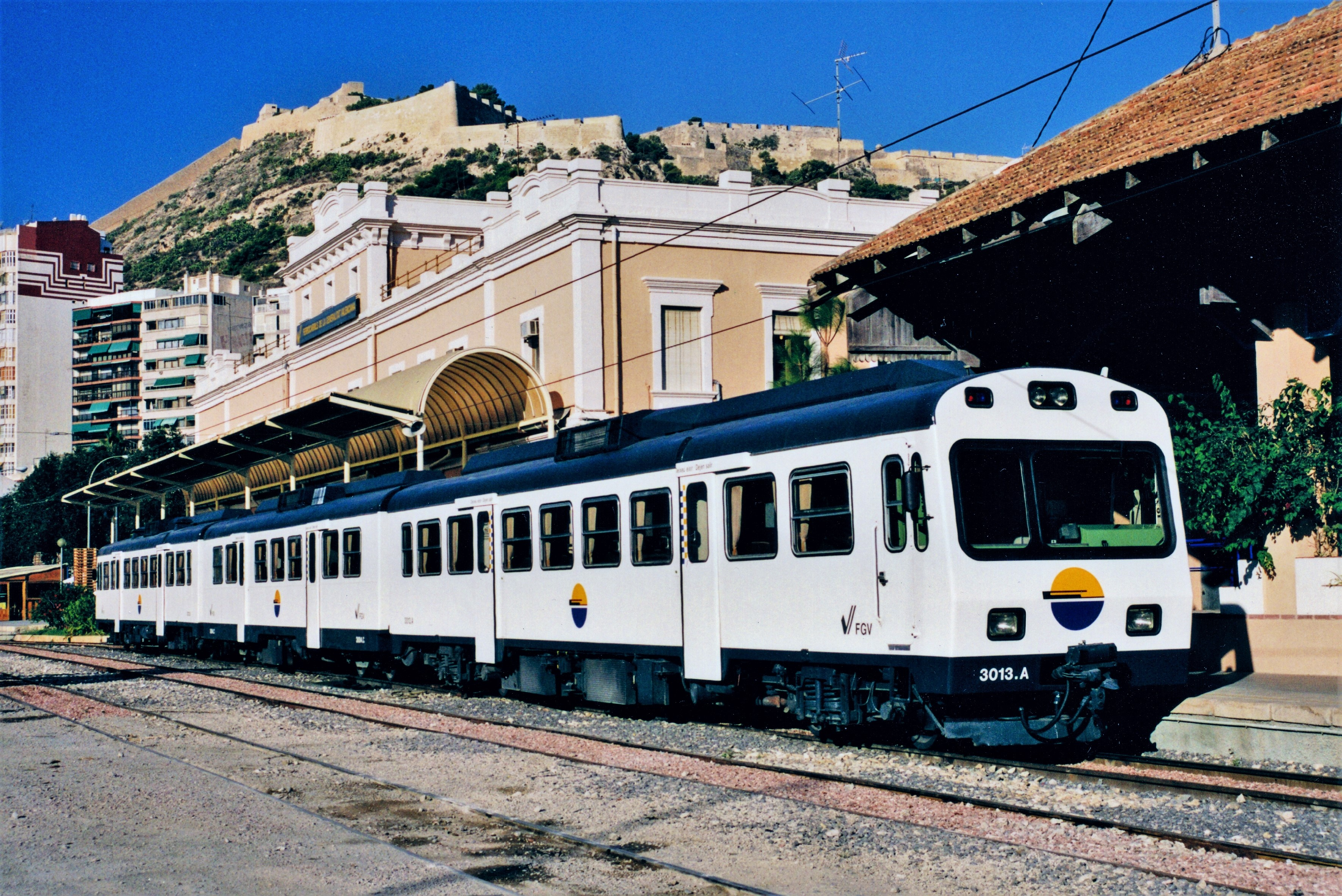 The DMU with cars 3013.A-3004.C-3012.B, acquired second-hand from FGC, ready to depart with the 10:00 h train to Dènia.